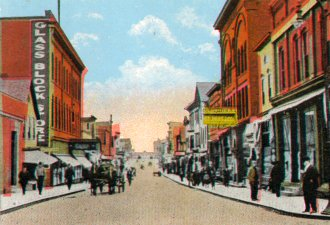 5th Street in Red Jacket—present day Calumet, on the Upper Peninsula of Michigan. From c. 1910 postcard. Now in the Calumet Downtown Historic District.